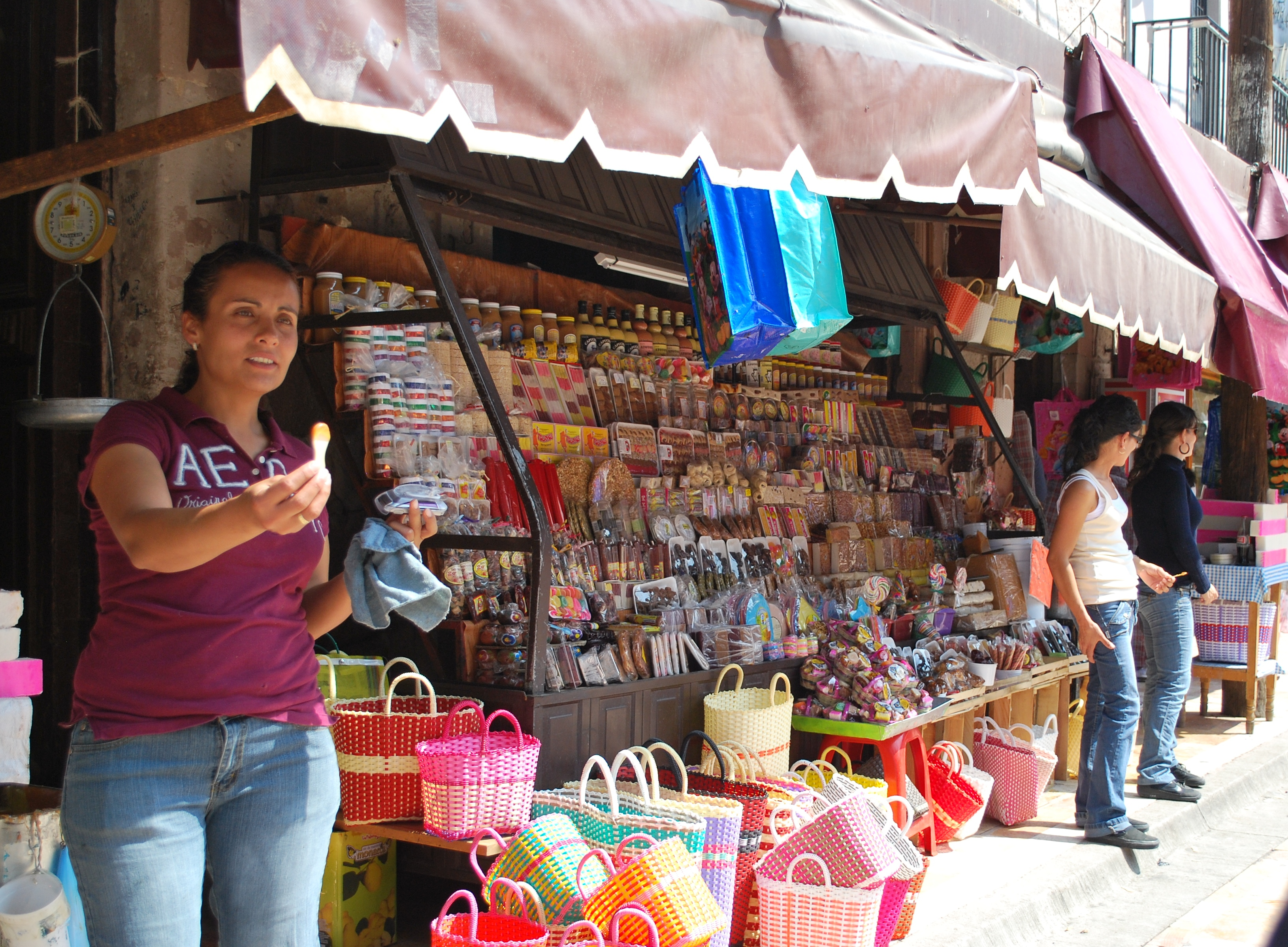 Woman offering sample of cajeta at a candy stand in San Juan de los Lagos, Mexico